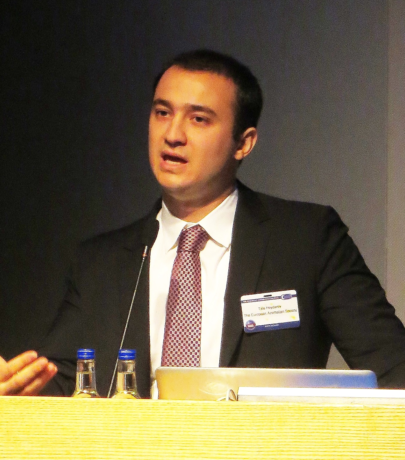 Photo of Tale Heydarov